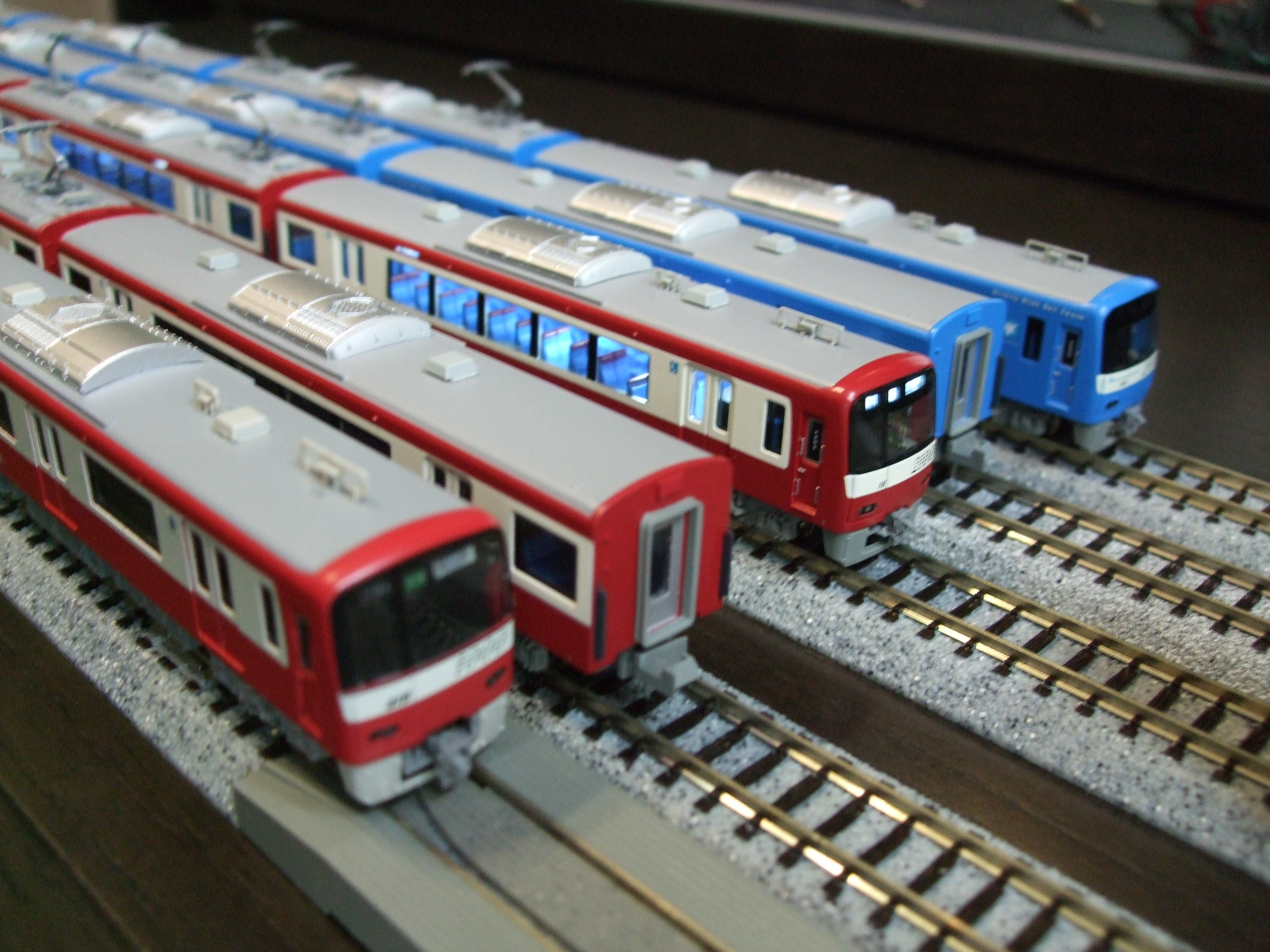 N Scale Keikyu new 1000 series and 2100 series train model Manufacture by Greenmax and MicroACE